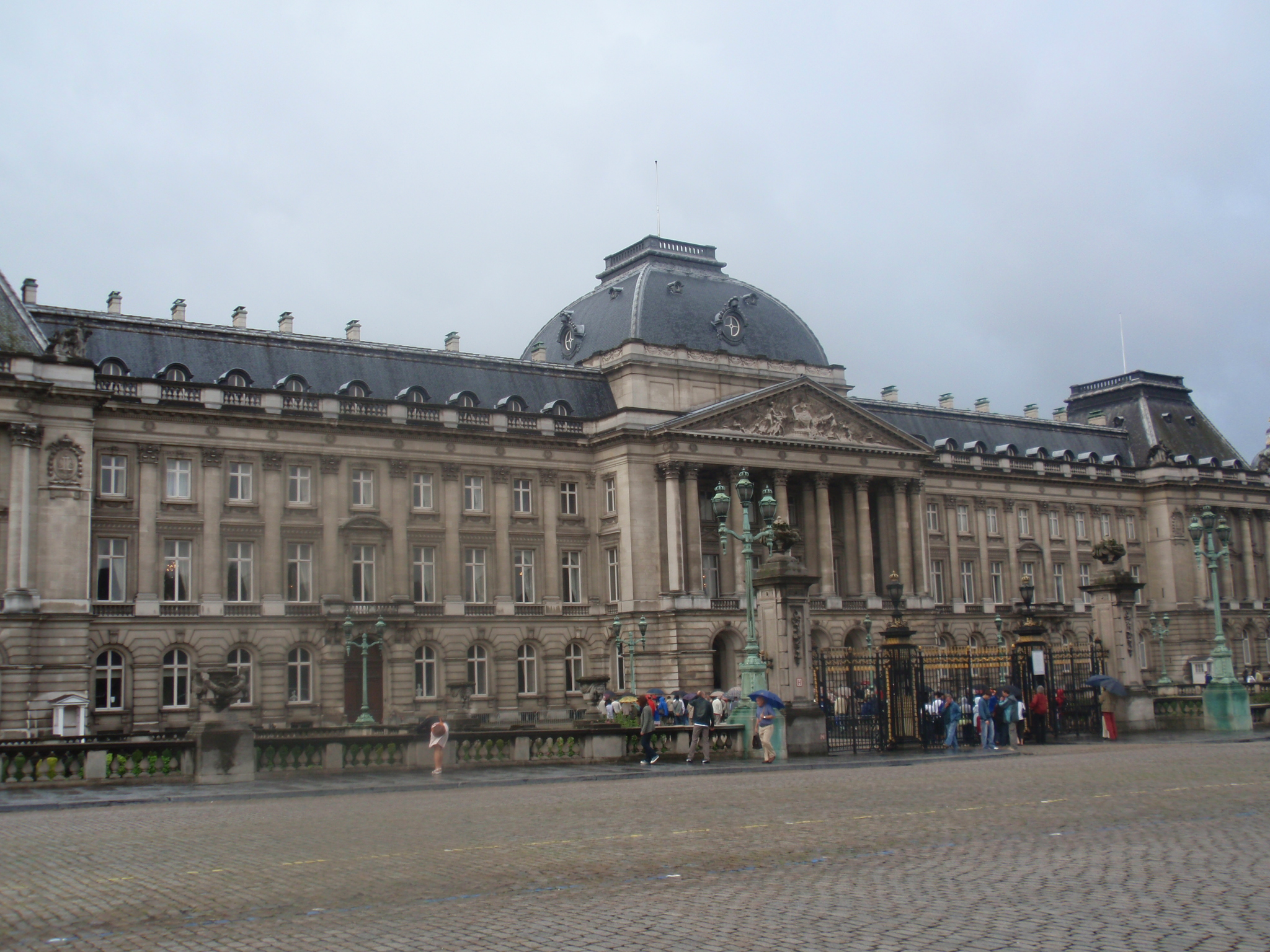 Royal Palace, Brussels, august 2008